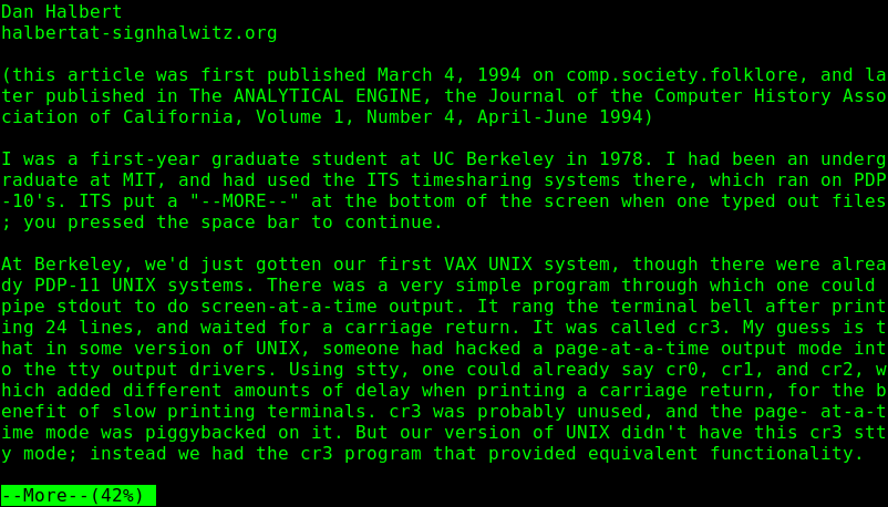 A screenshot of more running in a gnome pseudoterminal of a Ubuntu 8.04 box, and edited by GIMP 2.4.5